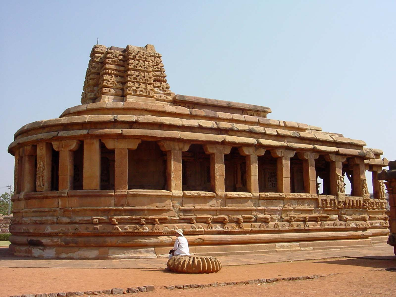 Durga Temple. Aihole, late 7th century. The name "Durga" refers to a fort, not to the goddess; apparently at one time the building was used as a military outpost (durg). It is not known to which deity the temple was originally dedicated. The photo was taken from the southwest corner. It shows the south wall and curved west end (rear) of the temple. The entrance is east.